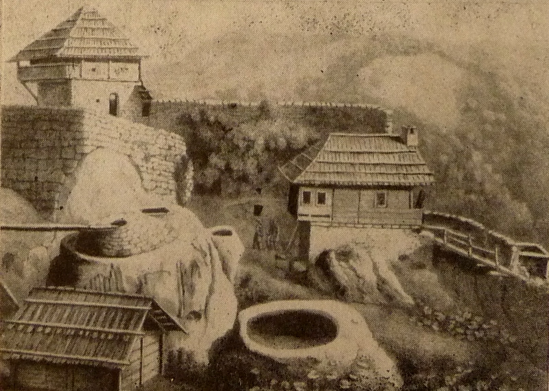 Askani fortress